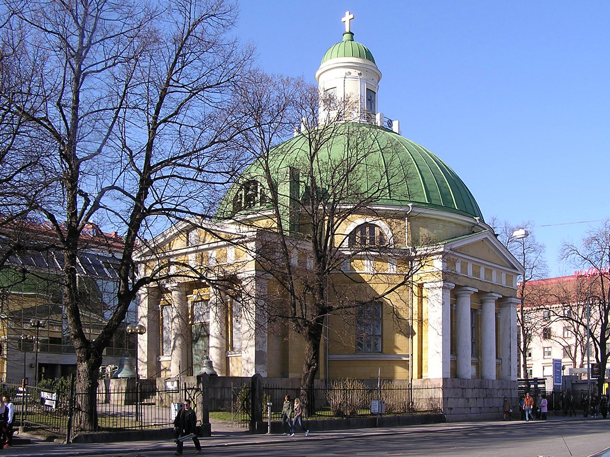 The Russian Orthodox church of Holy Empress Alexandra the Martyr in Turku (Abo), Finland. Its design is a Dome rotunda in the doric order, based on the Roman Pantheon. Architect German-born Carl Ludvig Engel. Constructed between 1839-1845. Dedicated to the wife of the Roman Emperor Diocletian, Alexandra, who suffered martyrdom in 303 AD. At the time of taking the picture, it was under renovation.